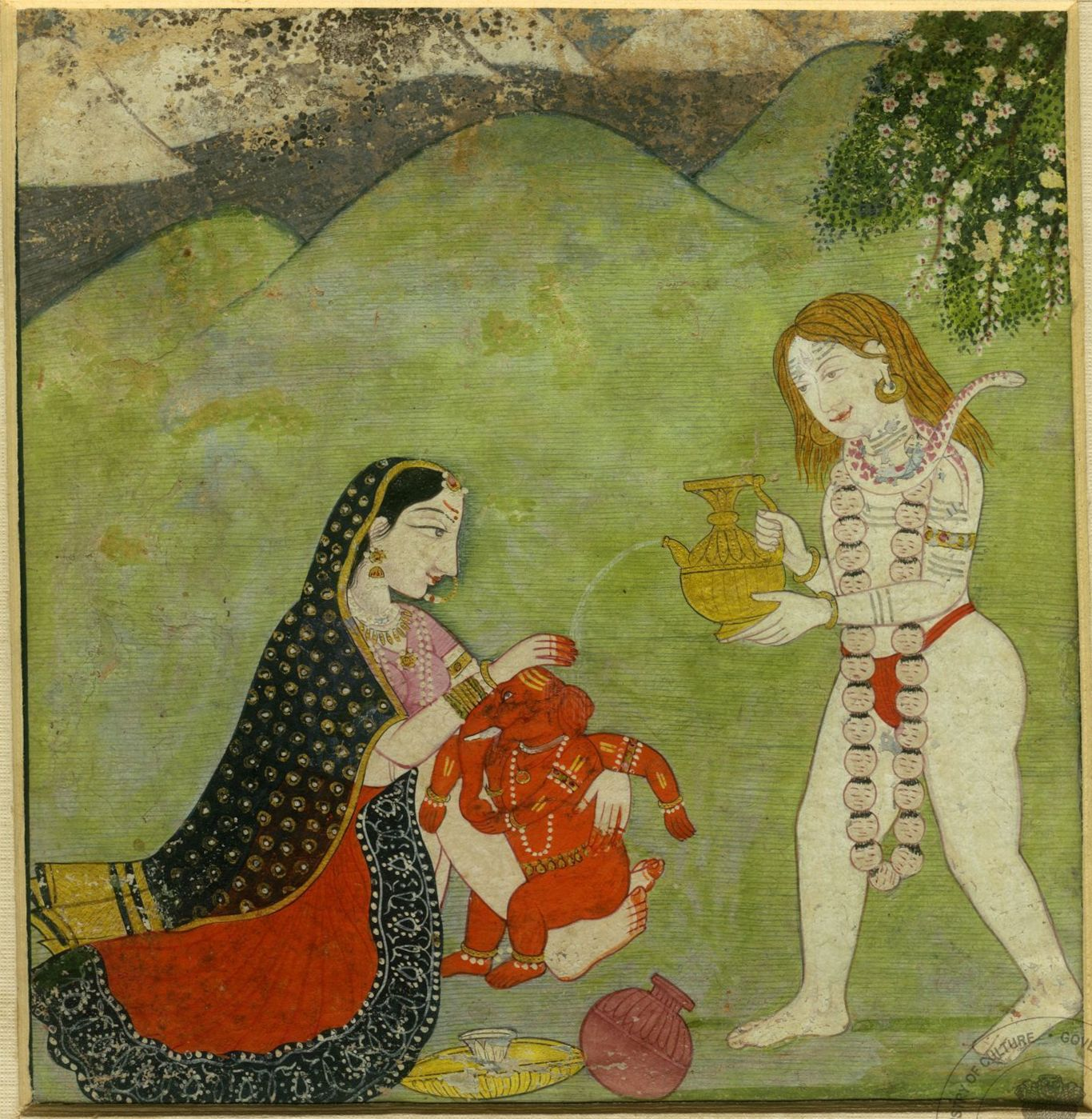 This work is reproduced and described in Martin-Dubost, Paul (1997). Gaņeśa: The Enchanter of the Three Worlds. Mumbai: Project for Indian Cultural Studies. ISBN 81-900184-3-4, p. 51, which describes it as follows: "This square shaped miniature shows us in a Himalayan landscape the god "Śiva sweetly pouring water from his kamaṇḍalu on the head of baby Gaṇeśa. Seated comfortably on the meadow, Pārvatī balances with her left hand the baby Gaņeśa with four arms with a red body and naked, adorned only with jewels, tiny anklets and a golden chain around his stomach, a necklace of pearls, bracelets and armlets."